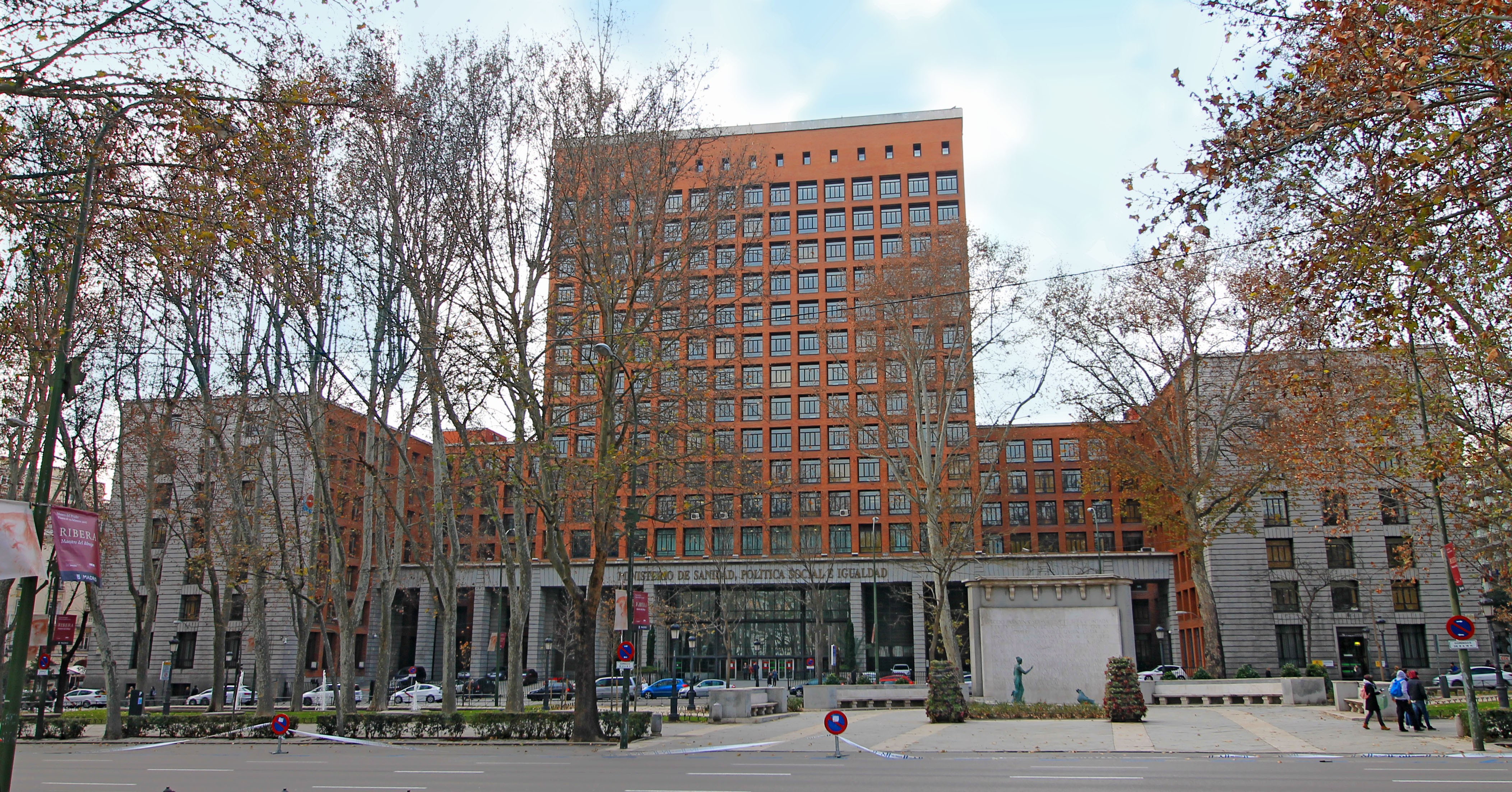 Façade of the Spanish Ministry of Health, in Madrid.